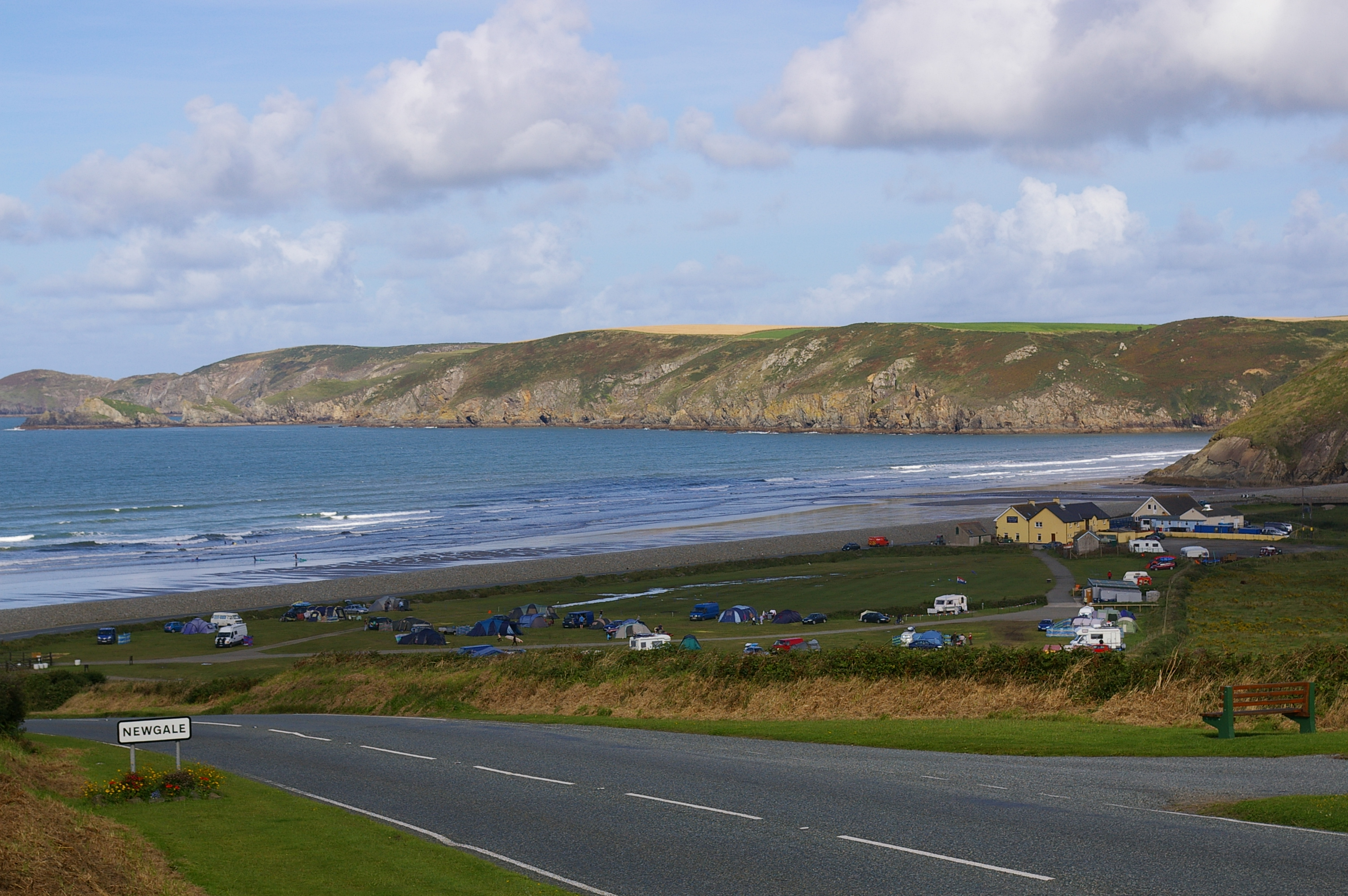 View of Newgale beach camp site from the lay-by at the top of the hill.